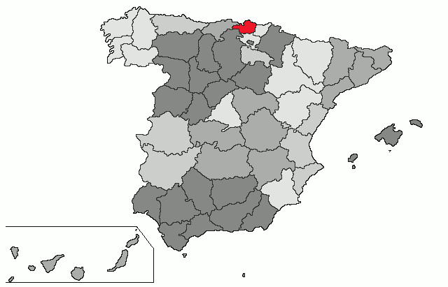 ES: Provincia de Vizcaya EN: Province of BiscayBased in: Image:ProvPont.jpg Source: Designed by Leoplus. Original picture, designed by Sobreira.